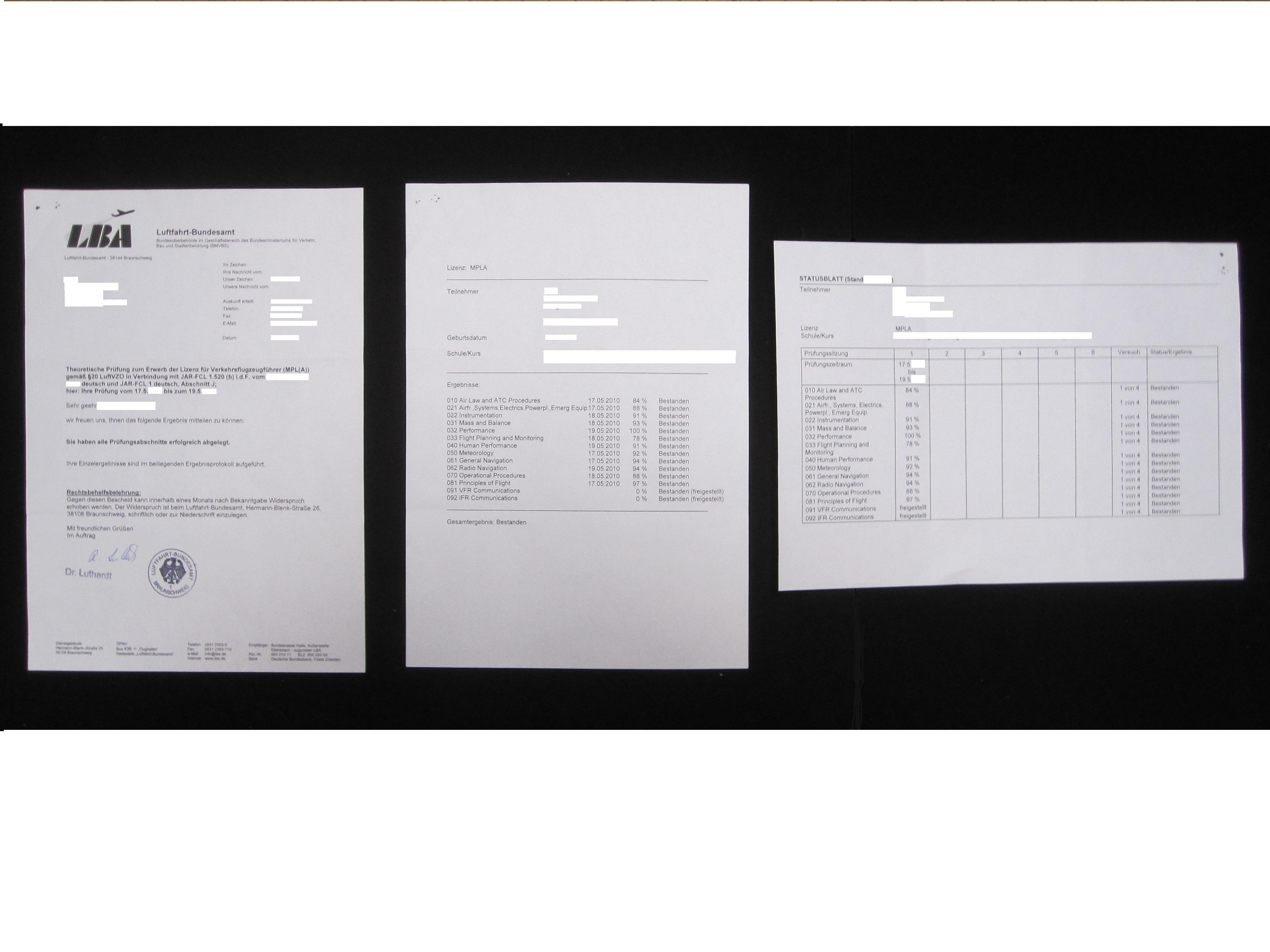 test results MPL(A) theory